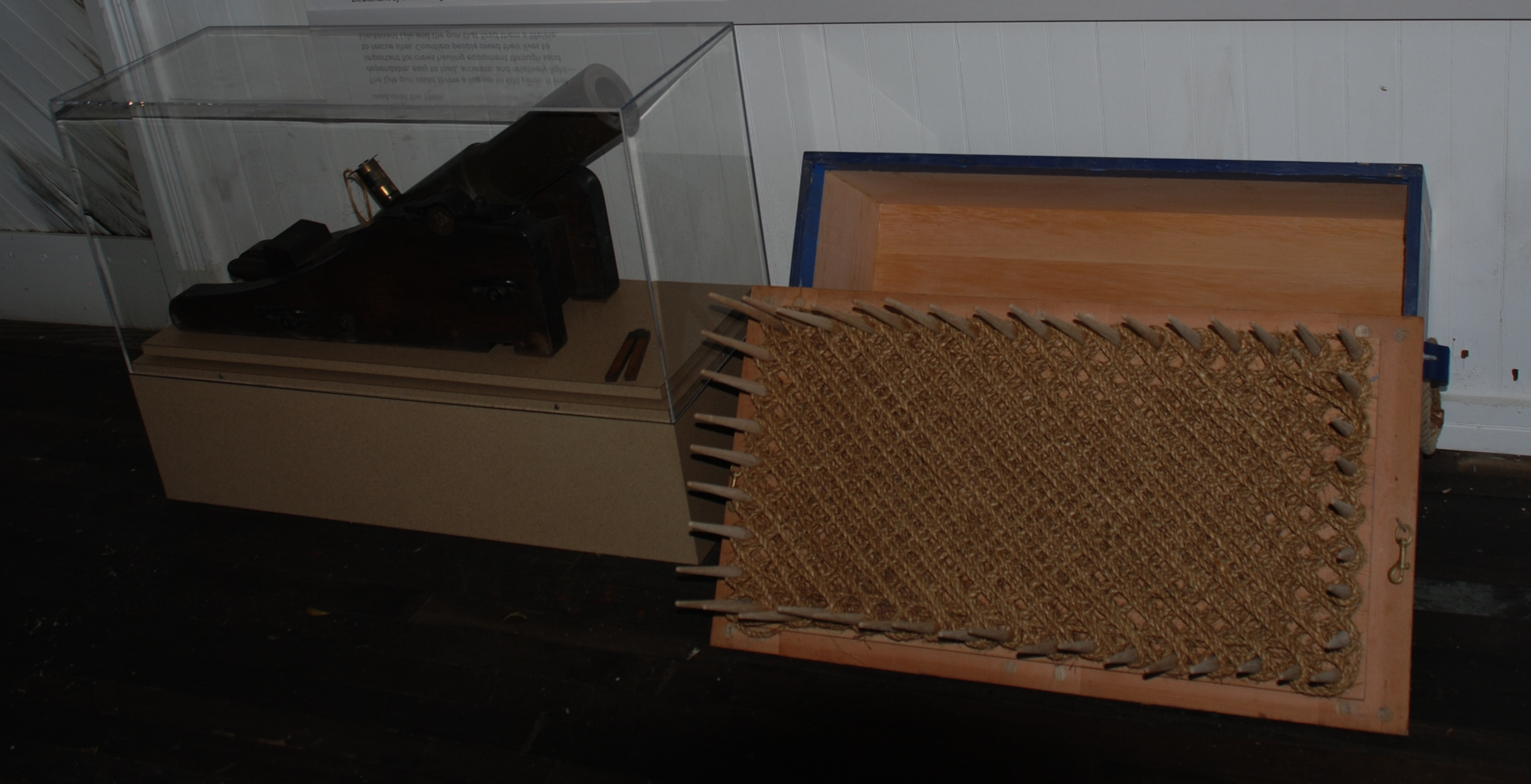 Portsmouth, North Carolina an abandoned village on North Core Banks: Lyle gun and Shot line in flaking box displayed in the Portsmouth Life-Saving Station.